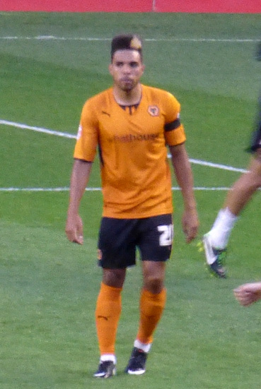 Scott Golbourne on his home debut for Wolverhampton Wanderers in the Johnstone's Paint Trophy match against Walsall.